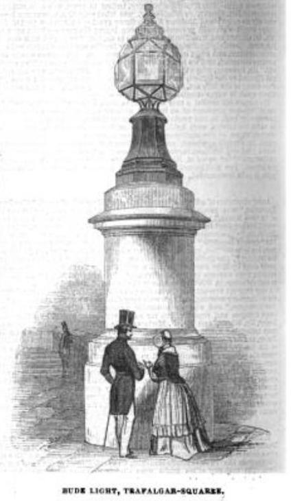 "BUDE LIGHTS, TRAFALGAR-SQUARE - The lanterns for the reception of the Bude Lights to illumine this fine area, exhibit certain novel and meritorious peculiarities of form and construction, which has induced us to engrave them for our columns. The lanterns, four in number, are of an octagonal shape, from the design of Mr. Barry, R.A., and manufactured by Messrs. Stevens and Son, of the Darlington Works, Southwark. They are placed on four large bronze pedestals ; the height of the larger pair, from the base to the bottom of the lamp , is 3 feet six inches,.. These are to be fixed on the massive granite pillars on the south-east and south-west angles of the square. The two smaller ones are... height, 9 feet to the bottom of the lamp. These are destined for the balustrades opposite the National Gallery: the gun metal, of which the whole is composed, is ⅜ of an inch thick. The lamps are to be glazed with flint glass of the substance of an inch, with a 2-inch cut bevel, worked parallel surfaces, and all highly polished. The refraction of light occasioned by these numerous varieties of surface is likely to produce a very brilliant effect". The Illustrated London News, May 3, 1845.